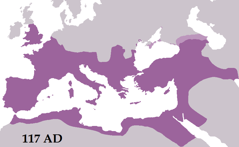 The Roman Empire in 117 AD during the reign of emperor Trajan. Depicted is Roman territory (purple) and Roman dependencies (pink). Roman dependencies are the Bosporan Kingdom (north) and the Caucasian kingdoms of Colchis, Iberia, and Albania (northeast). Sources: Julian Bennett, Trajan: Optimus Princeps. 1997. p 177-8 (Limes Arabicus) Virtual Karak Resource (Limes Arabicus)